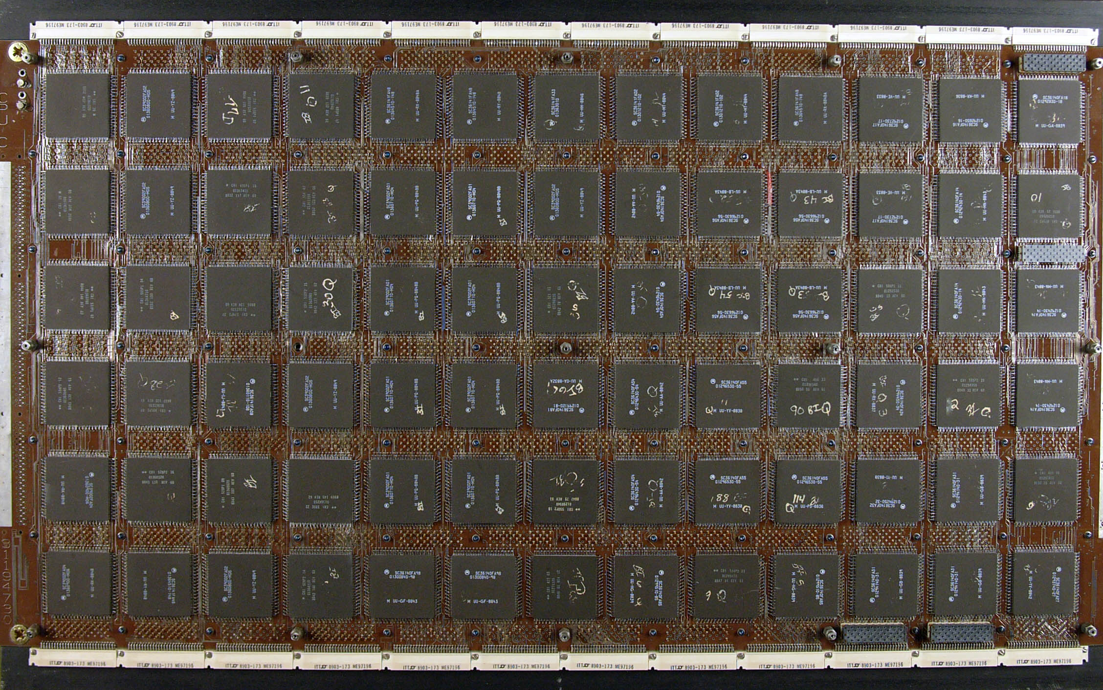 Processor board of a CRAY YMP vector computer (operational ca. 1992-2000). The board was liquid cooled and is one vector processor with shared memory (access to one central memory)